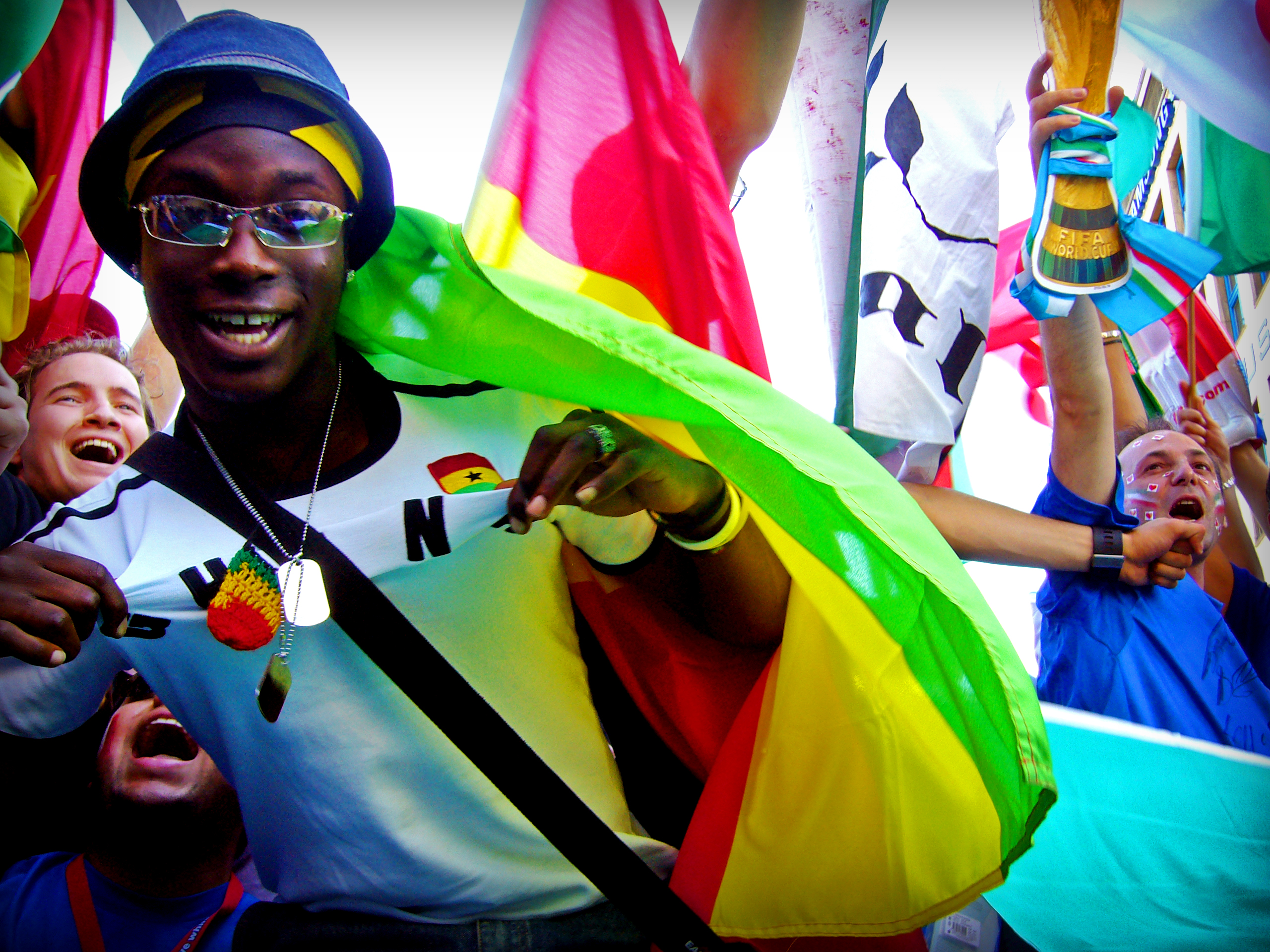 "Worldcup Fever": A soccer fan from Ghana before the world cup match Italy vs. Ghana in Hannover, Germany, surrounded by Italian fans.